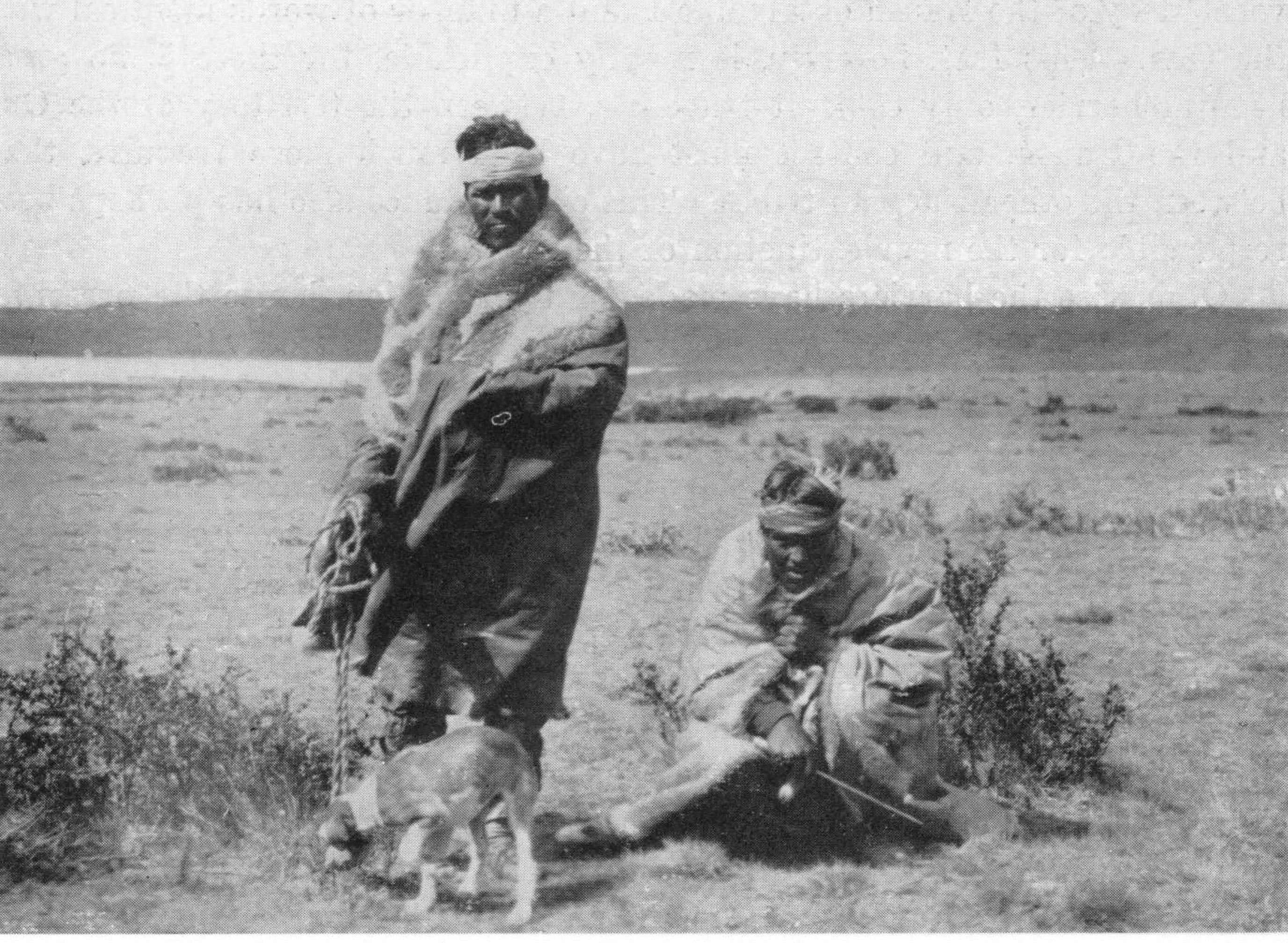 Fig. 8— Two Tehuelche men at Tres Lagunas between Gallegos and Santa Cruz Rivers. Note the plains country.